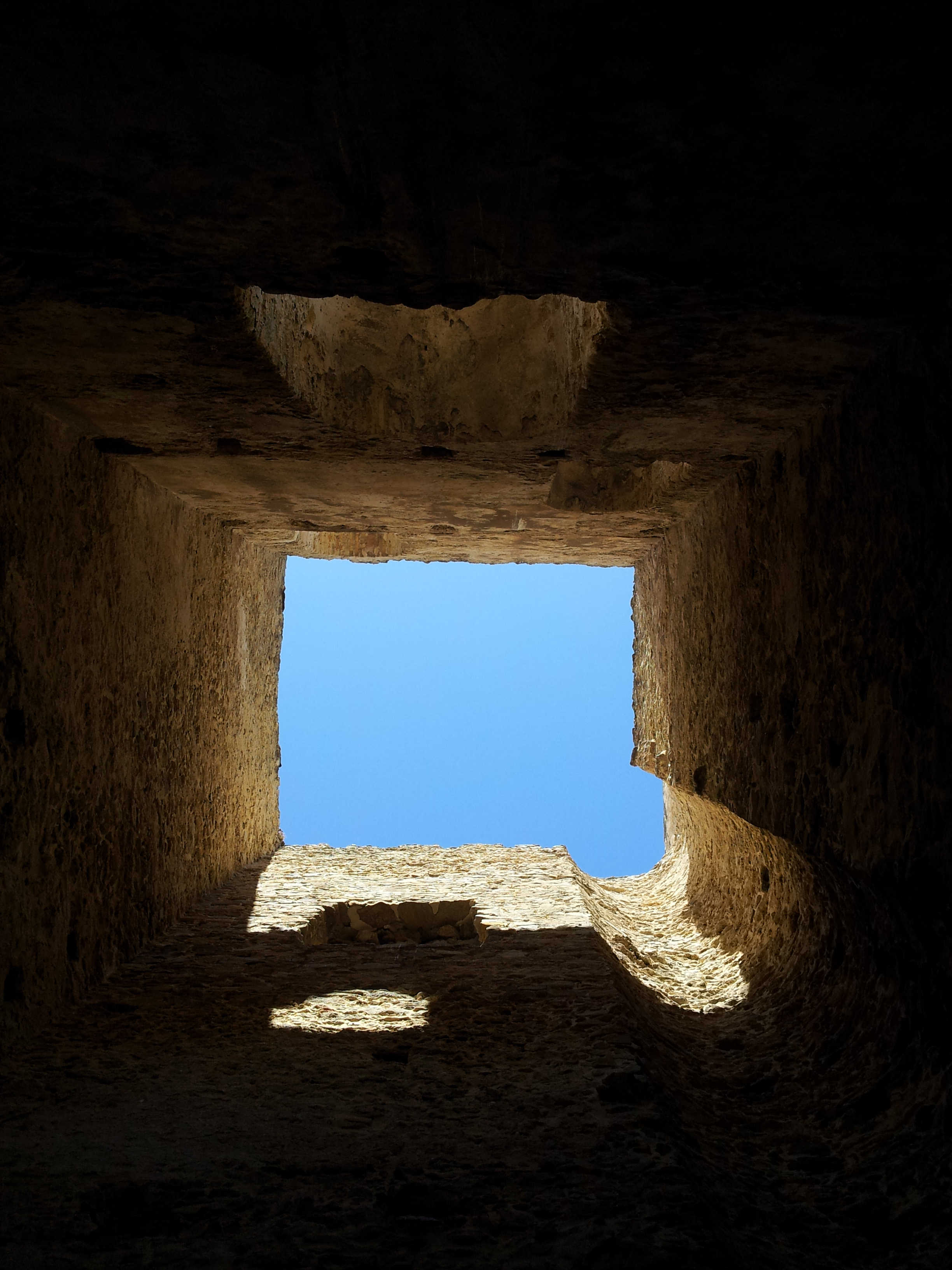 Castilnovo Tower, nadir view.